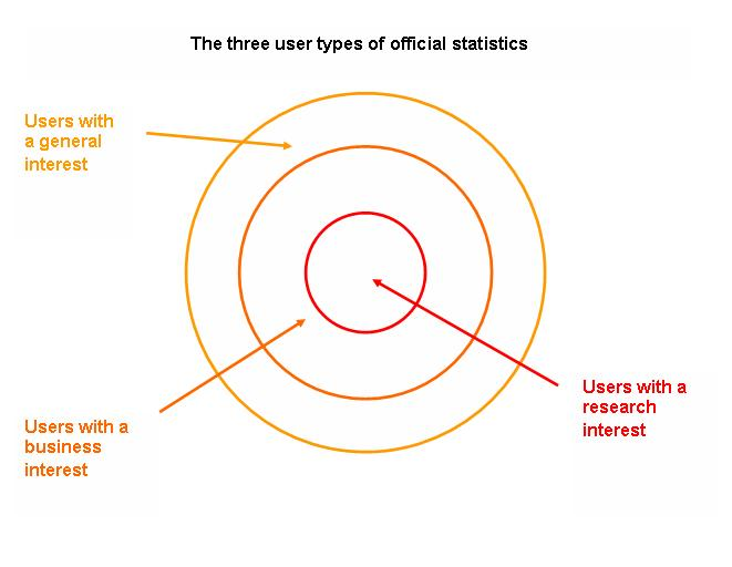 Graph describing the three different types of users of official statistics.